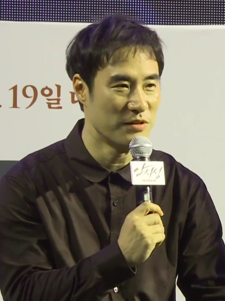 Bae Sung-woo speaking at Gwanghwamun Market in Seoul, for 2018 film 'The Great Battle' promotion